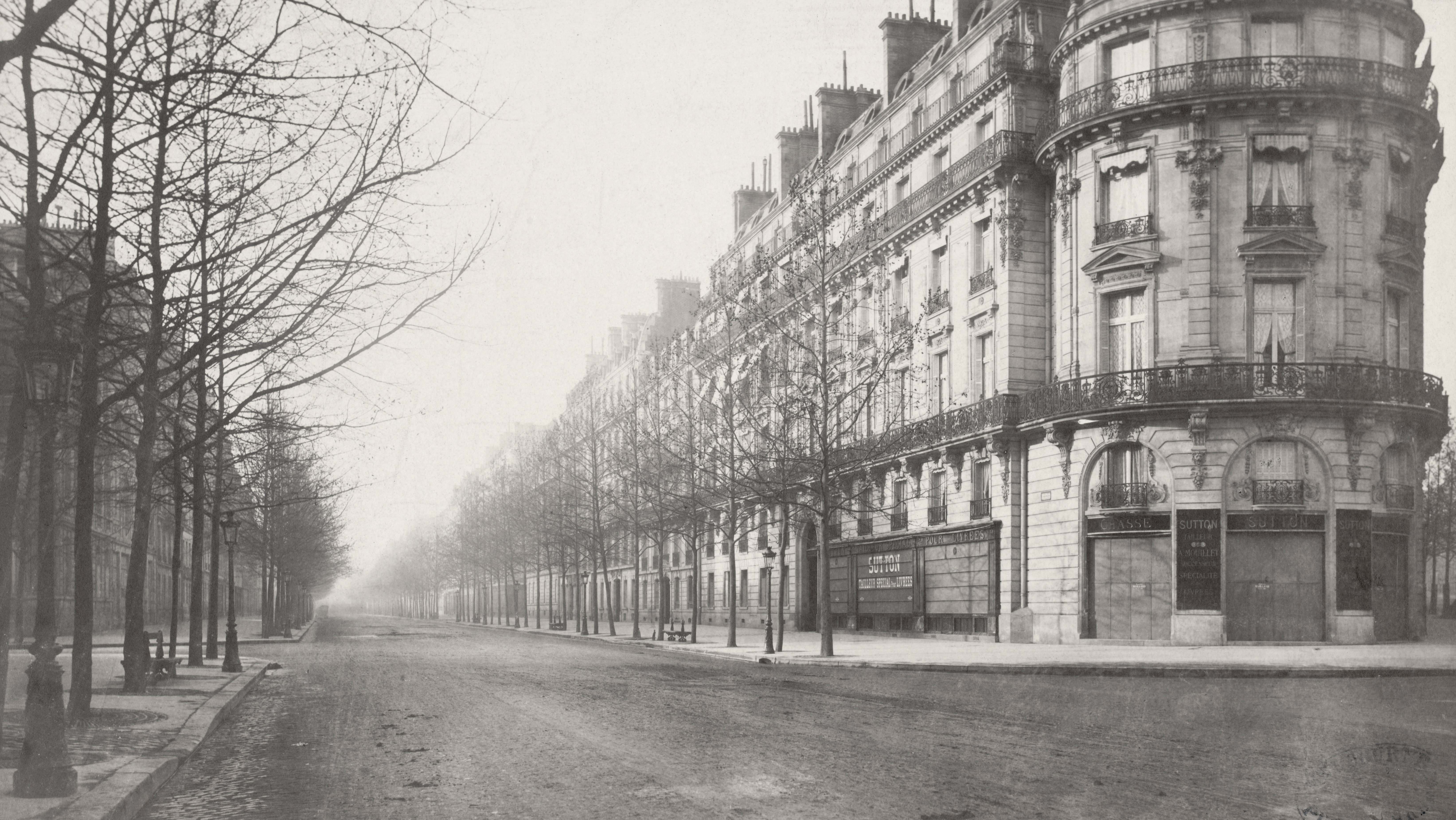 Looking along tree lined street with rue Miromesnil veering off on right, corner building with balcony, sign above door "Sutton Tailleur A. Mouillet successeur spécialité livrées".